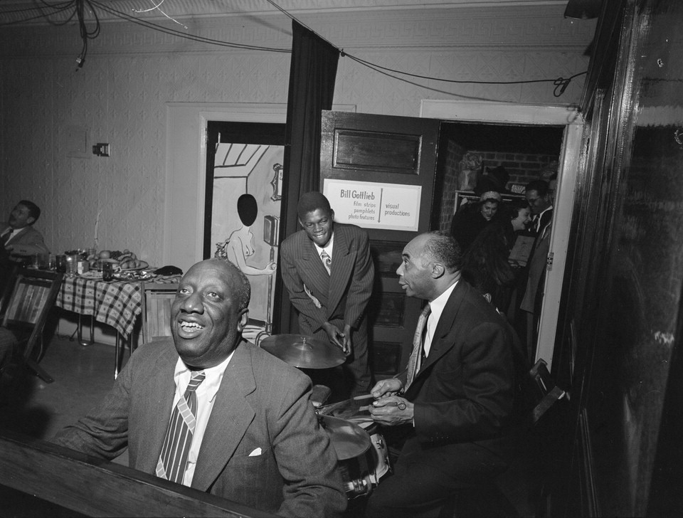 James P. Johnson, Fess Williams, Freddie Moore, Joe Thomas 1948. William P. Gottlieb's office party. Photography by William P. Gottlieb